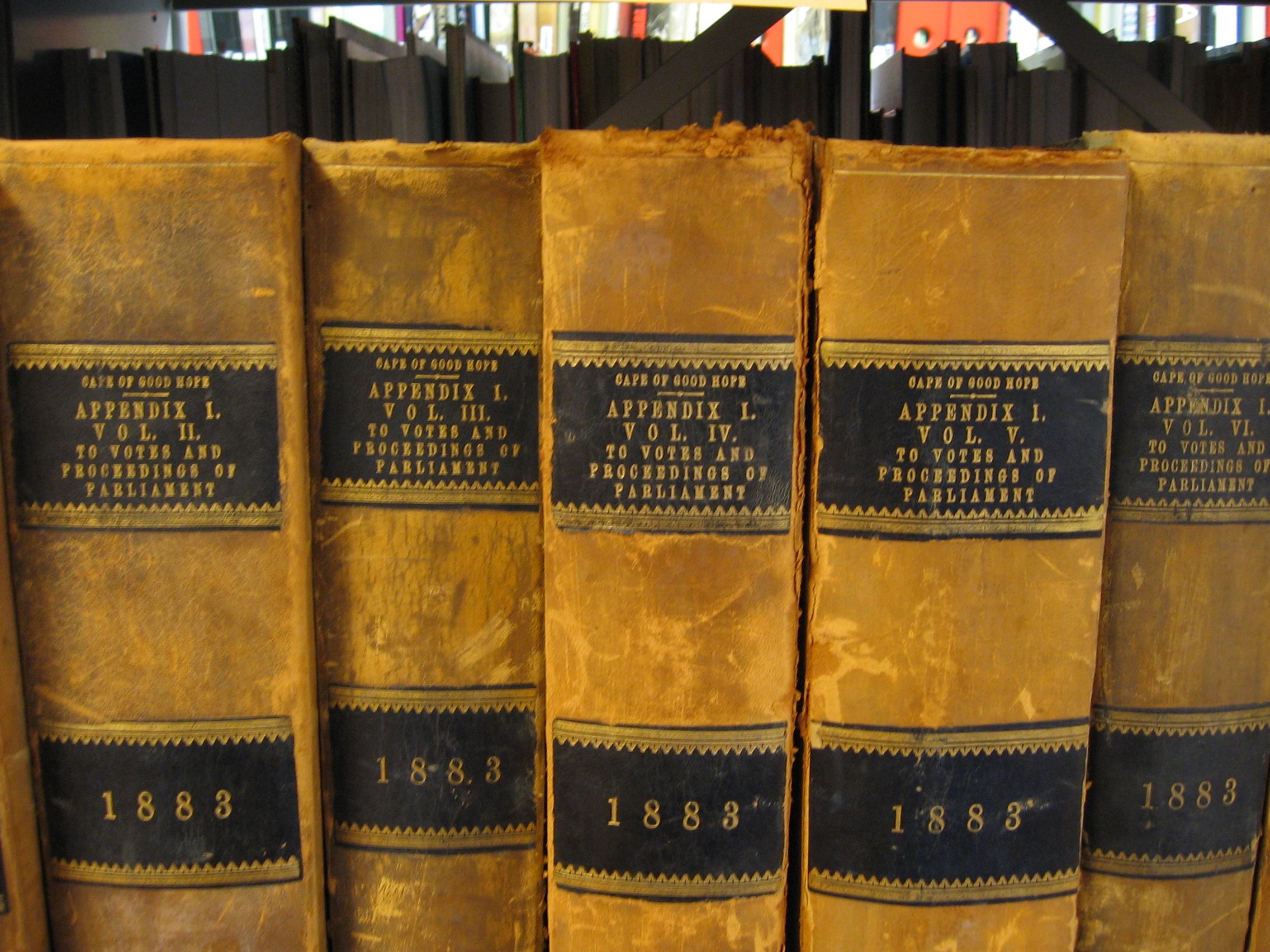 Library of the African Studies Centre, Leiden. Five tomes of the Appendix to Votes and Proceedings to Parliament, 1883. Cape of Good Hope.